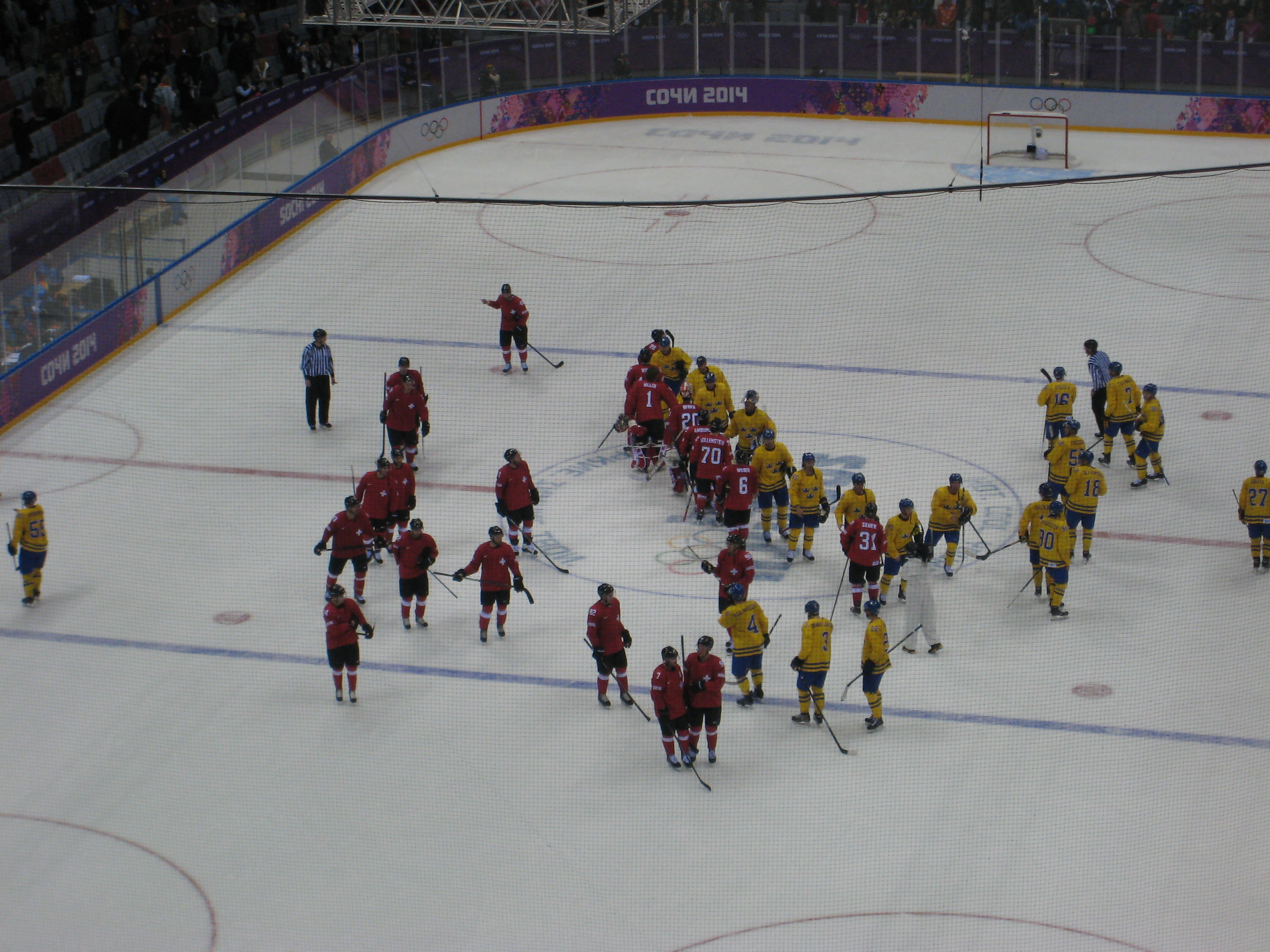 Ice Hockey at the 2014 Winter Olympics in Sochi. Men's Prelim. Round - Group C - Sweden vs. Switzerland.